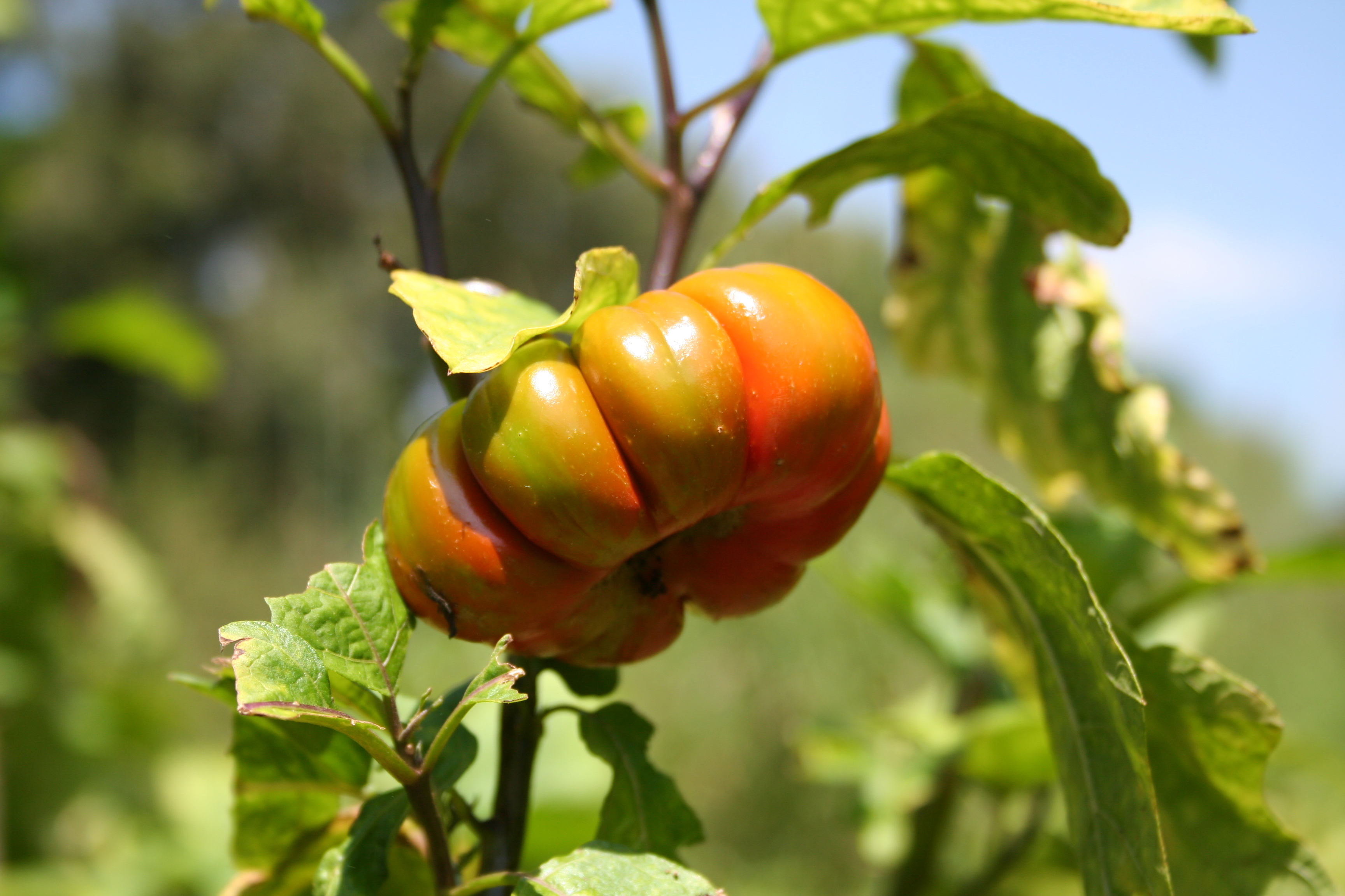 Fruit of Solanum aethiopicum ("aubergine locale"), cultivated near Cascades de Karfiguela, Burkina Faso